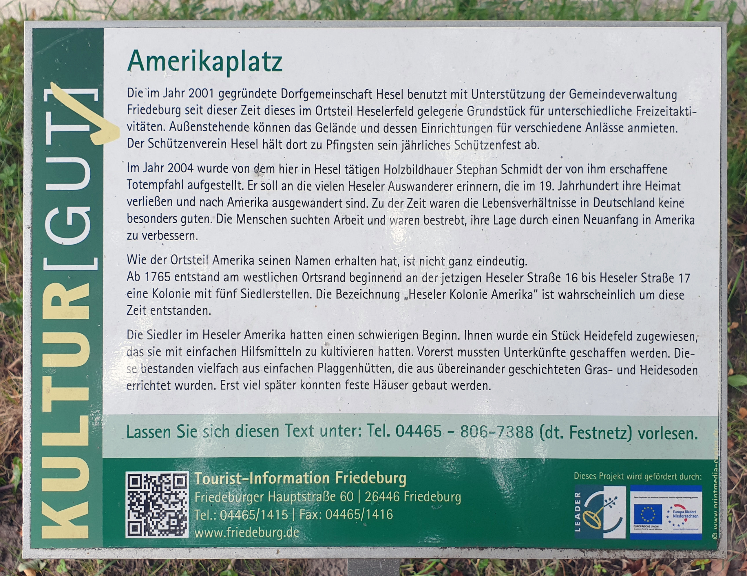 Memorial plaque, Amerikaplatz, Amerika (Friedeburg), Deutschland